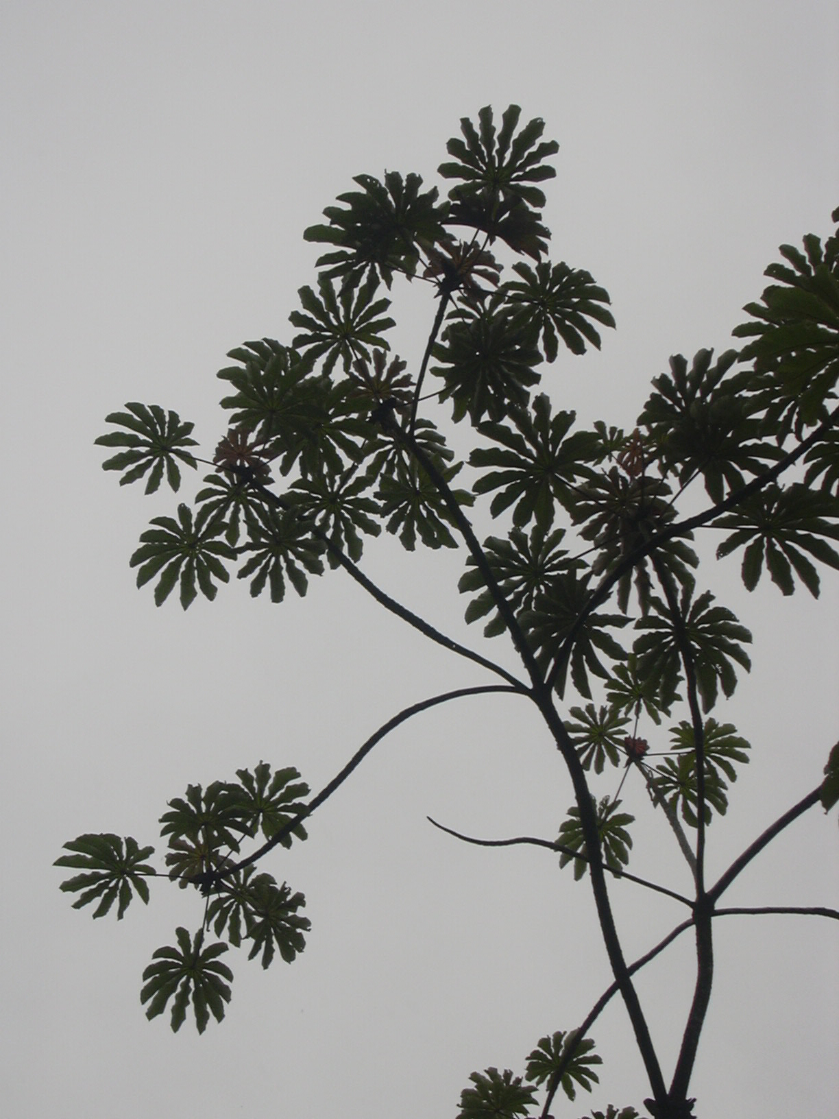 Cecropia obtusifolia (habit). Location: Hawaii, Hilo